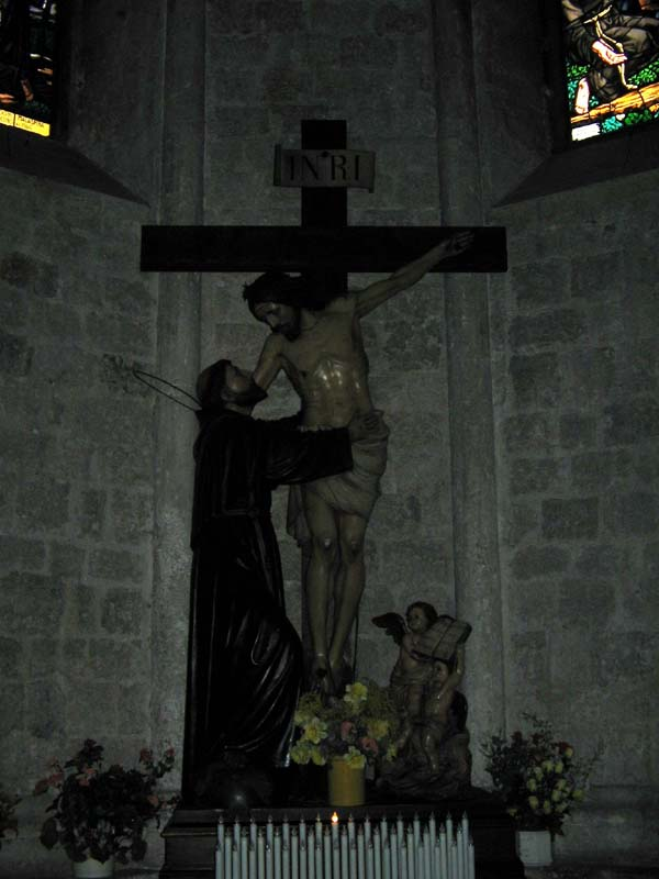 Ascoli Piceno - Church of San Francesco - Chapel in the left aisle